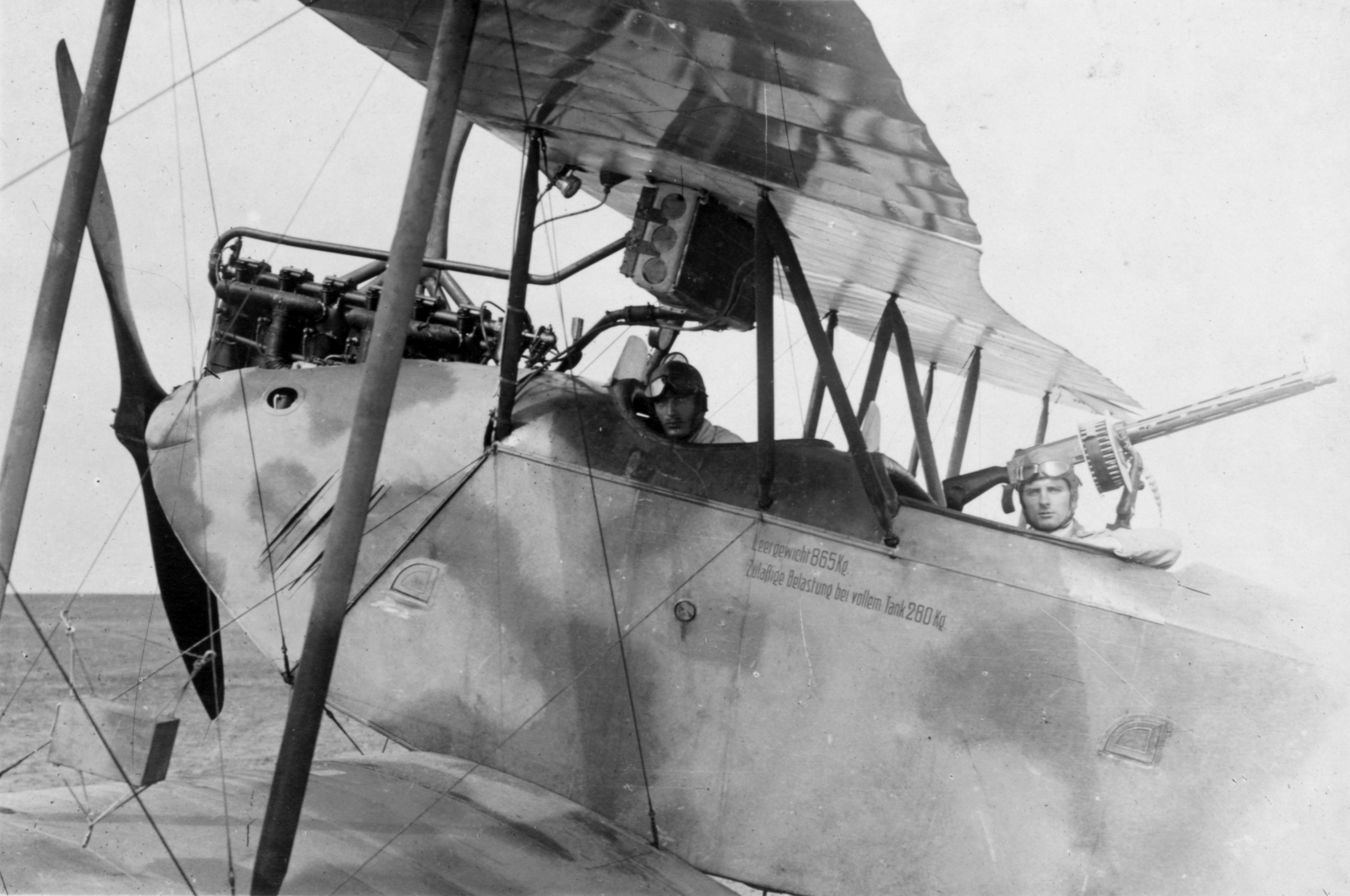 The crew of a German AEG C.IV of Flieger Abteilung 300 on the airfield at Huj, 15 km north-east of Gaza. The pilot is Gerhard Felmy.Felmy way born in 1891 in Berlin. He enlisted in 1910 with an infantry regiment and retired on 2 August 1914. After spending almost five months at the Niederneundorf flying school, he returned to active service on 27 January 1915 with the 51. Feldfliegerabteilung. In September 1916, he was transferred to Palestine and joined the Flieger-Abteilung 300. This unit was commonly known as "Jasta Felmy" (Jagstaffel Felmy), as it was commanded by his brother Hellmuth Felmy (1885–1965).